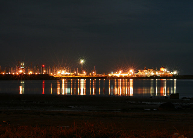 Ardrossan Harbour from North Bay